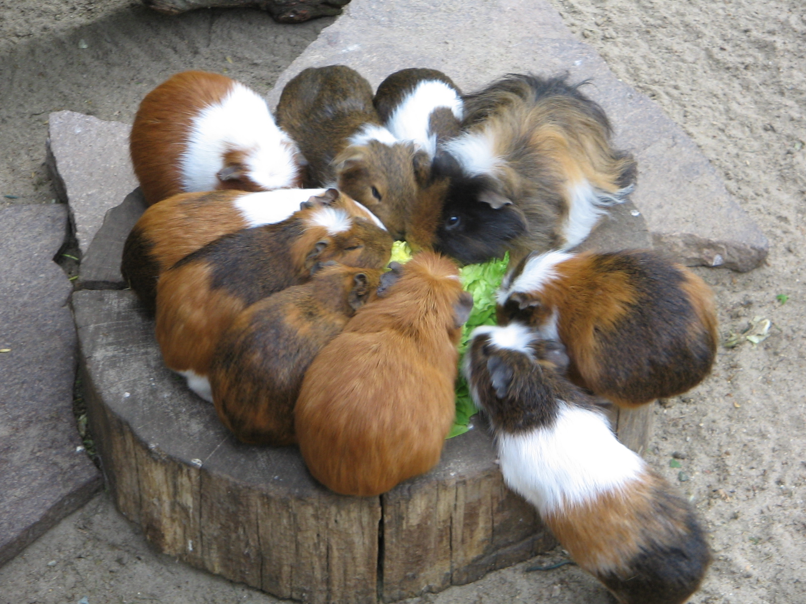 Group of guinea pigs (Cavia porcellus) in Braunschweig-Stöckheim zoo